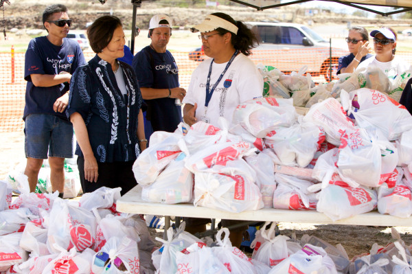 HI-#Mahalo @ConvoyofHope volunteers in #Kapolei for collecting 5,000 bags of groceries for area families in need.